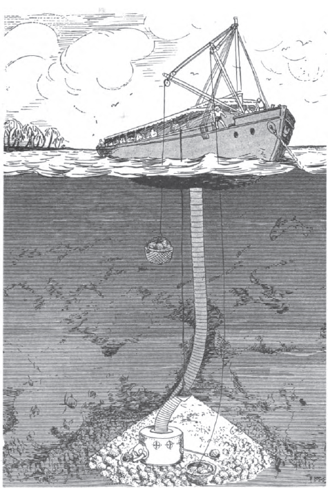 "George Williamson's drawing showing his father's invention - a sort of submerged Chinese lantern"